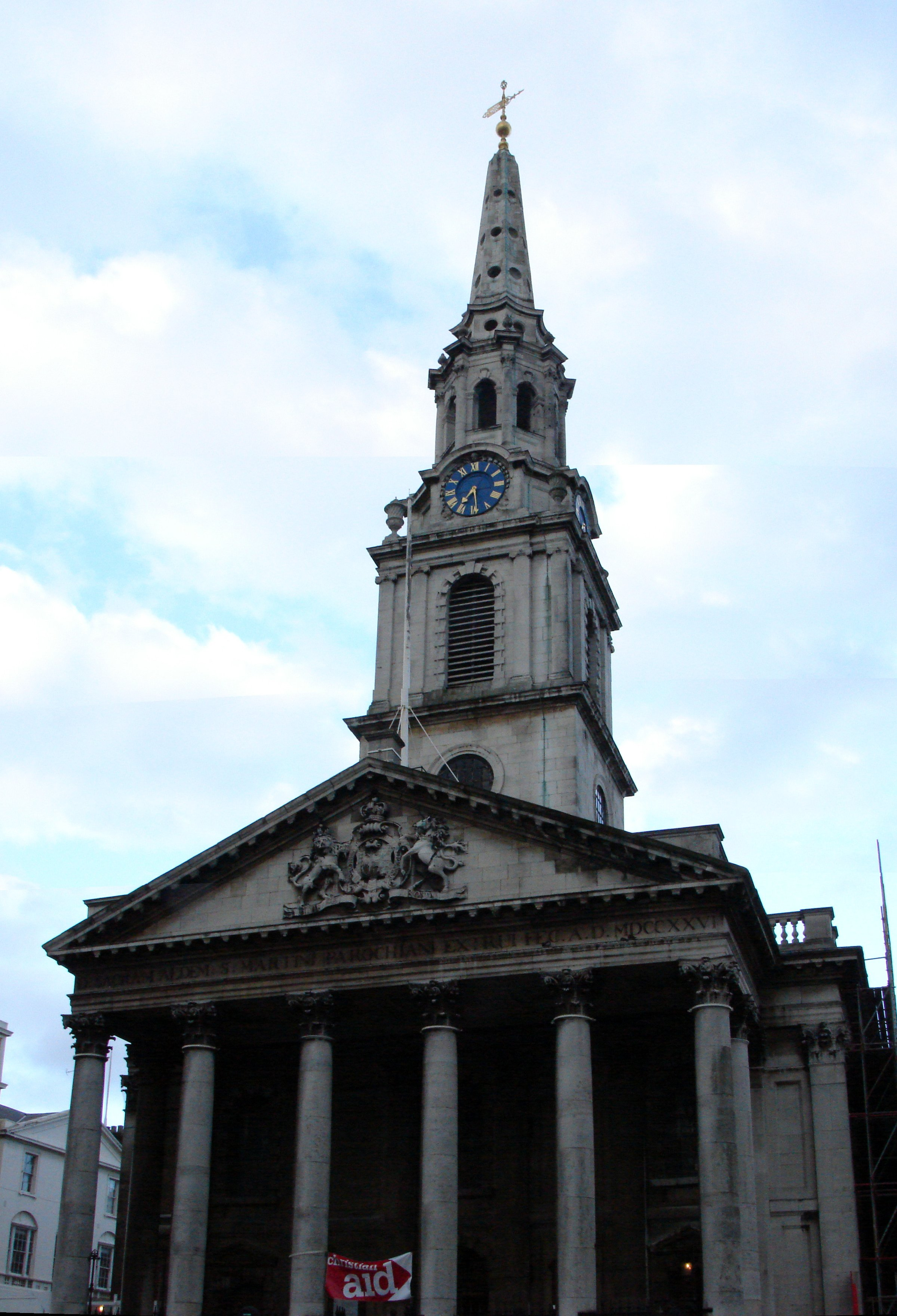 front of St. Martin-in-the-fields. Taken by me.